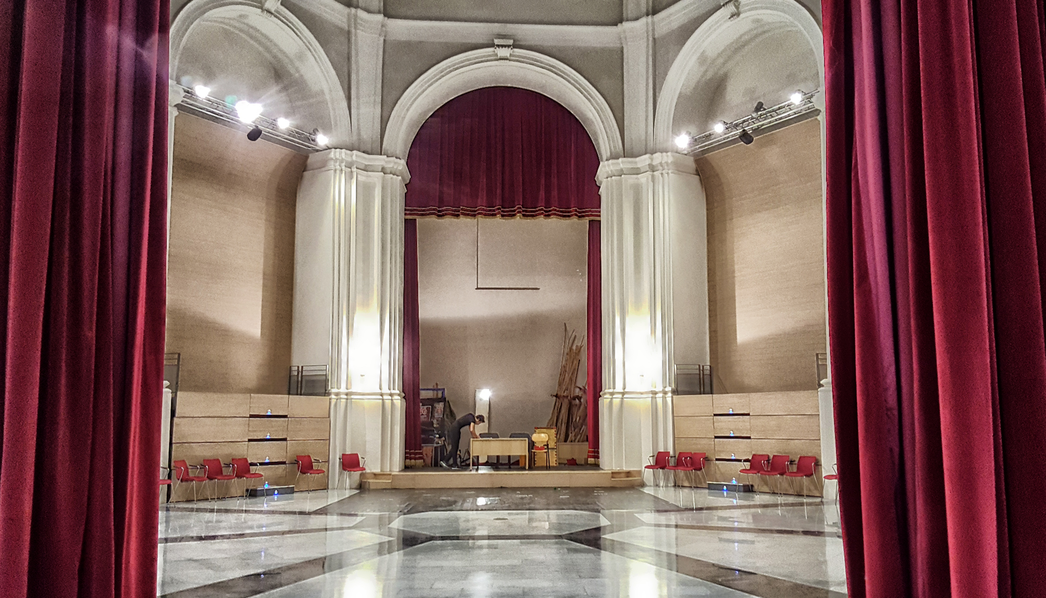 WIKIMEDIA LOVE MONUMENT This is a photo of a monument which is part of cultural heritage of Italy.